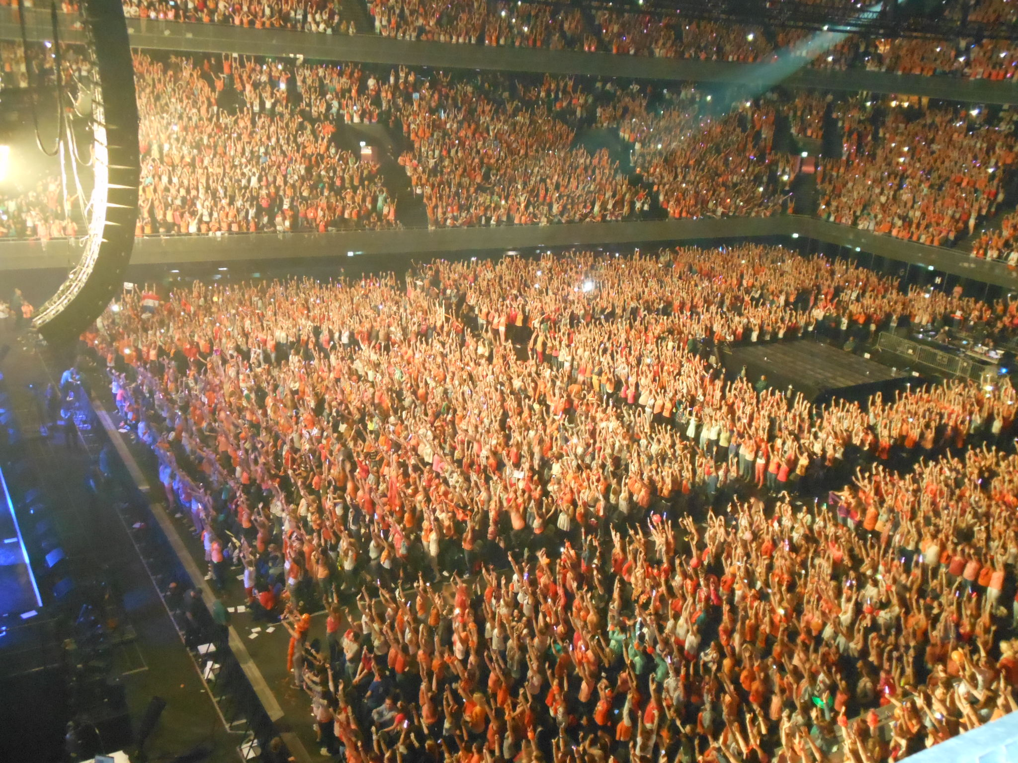 One Direction's sold out show at the Ziggo Zome the 3 may of 2013